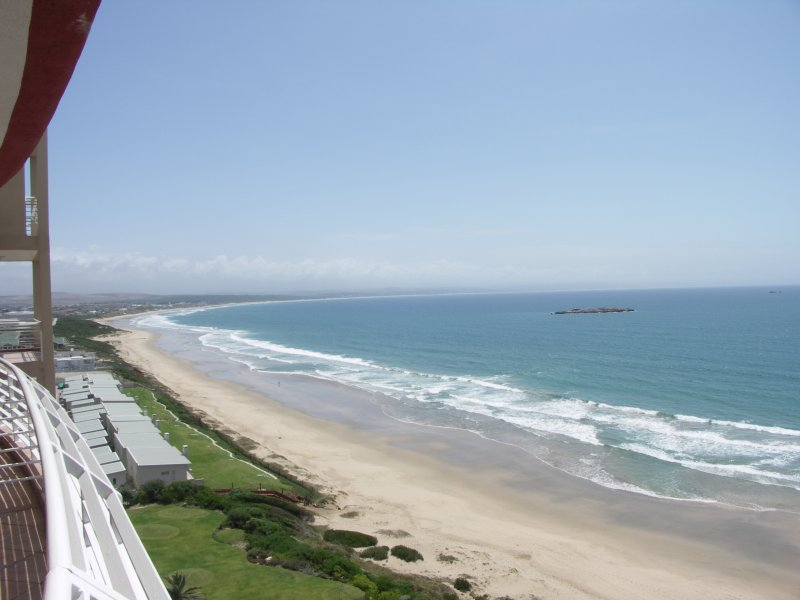 Beaches, Mossel Bay.